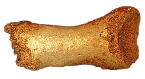 Dorsal view of the Denisova Neandertal toe bone